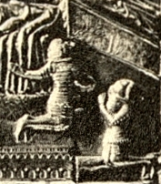 Tvrtko and Vuk praying for the soul of their uncle, Ban Stjepan II of Bosnia.